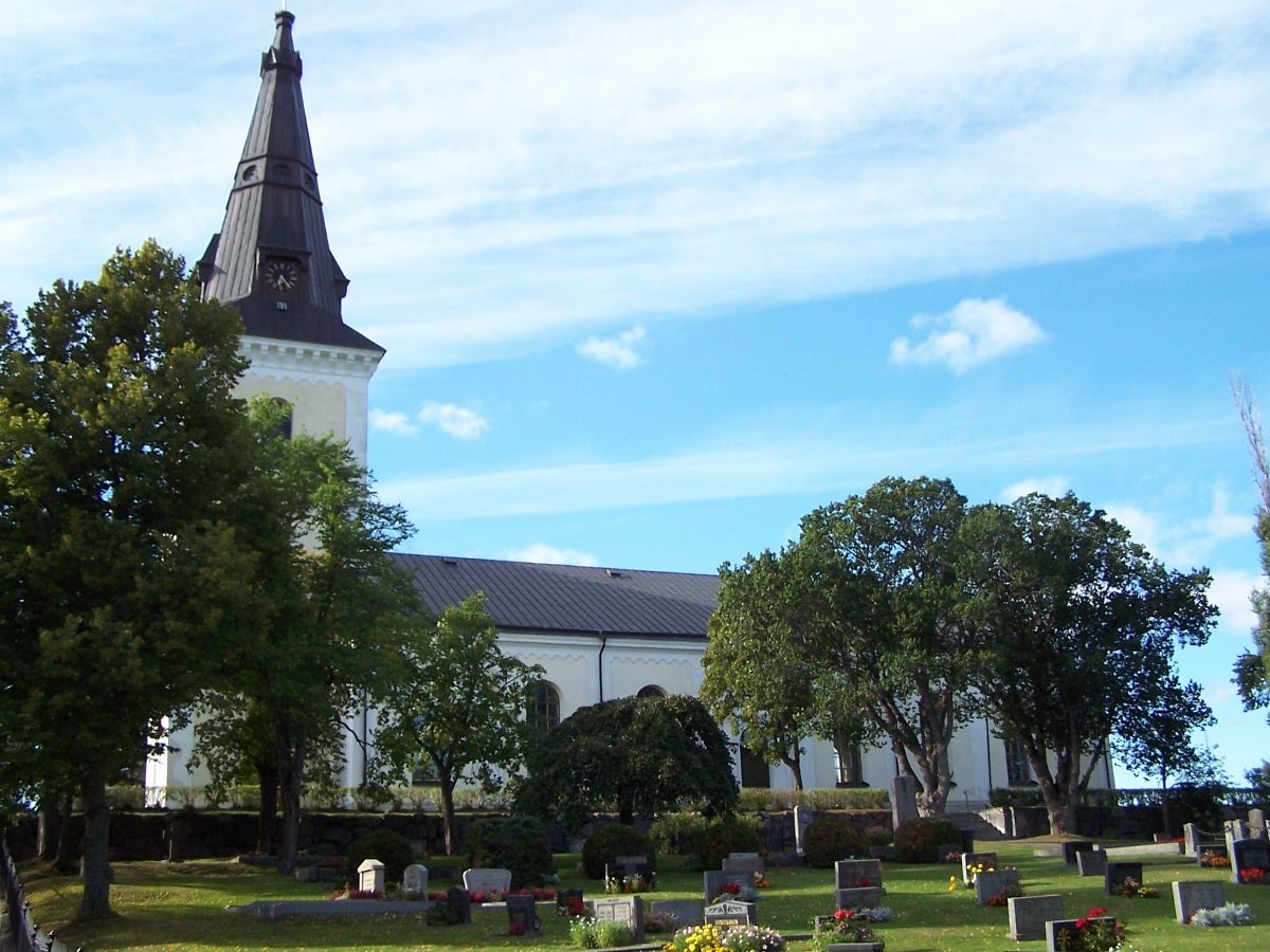 Enånger church, Sweden